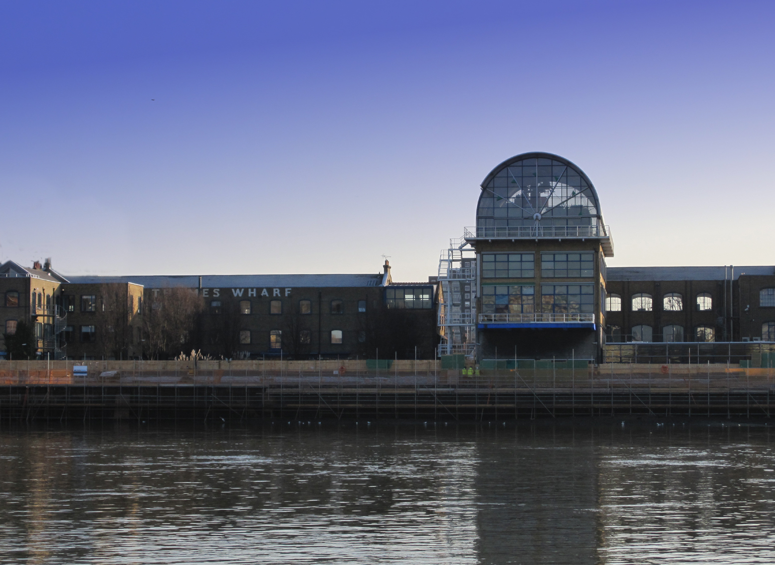 I took this photo in March 2010, showing Thames Wharf from the Barnes side of the River